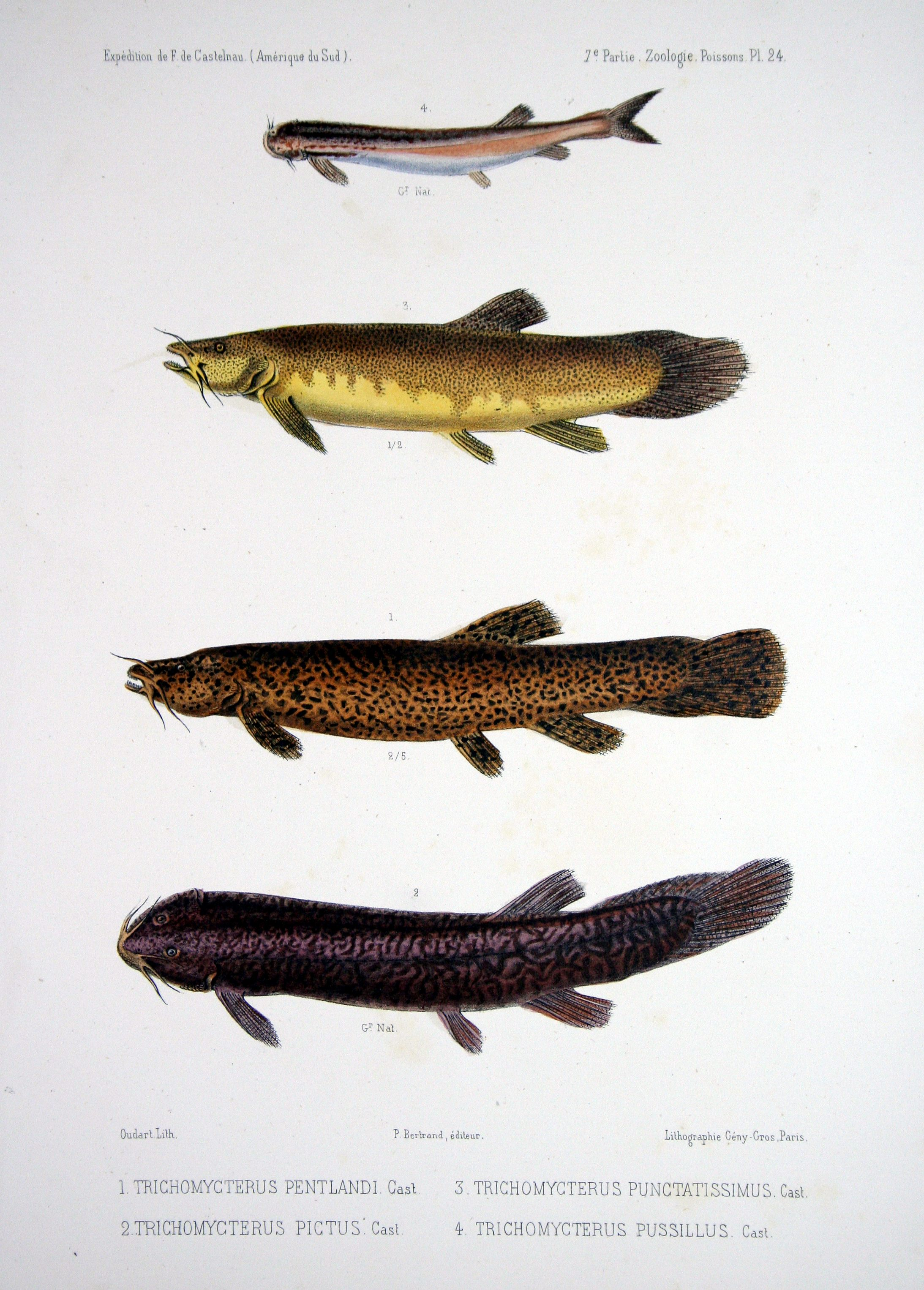 From top to bottom: Trichomycterus pussillus = Pareiodon microps Trichomycterus punctatissimus Trichomycterus pentlandi = Trichomycterus rivulatus Trichomycterus pictus = Trichomycterus rivulatus